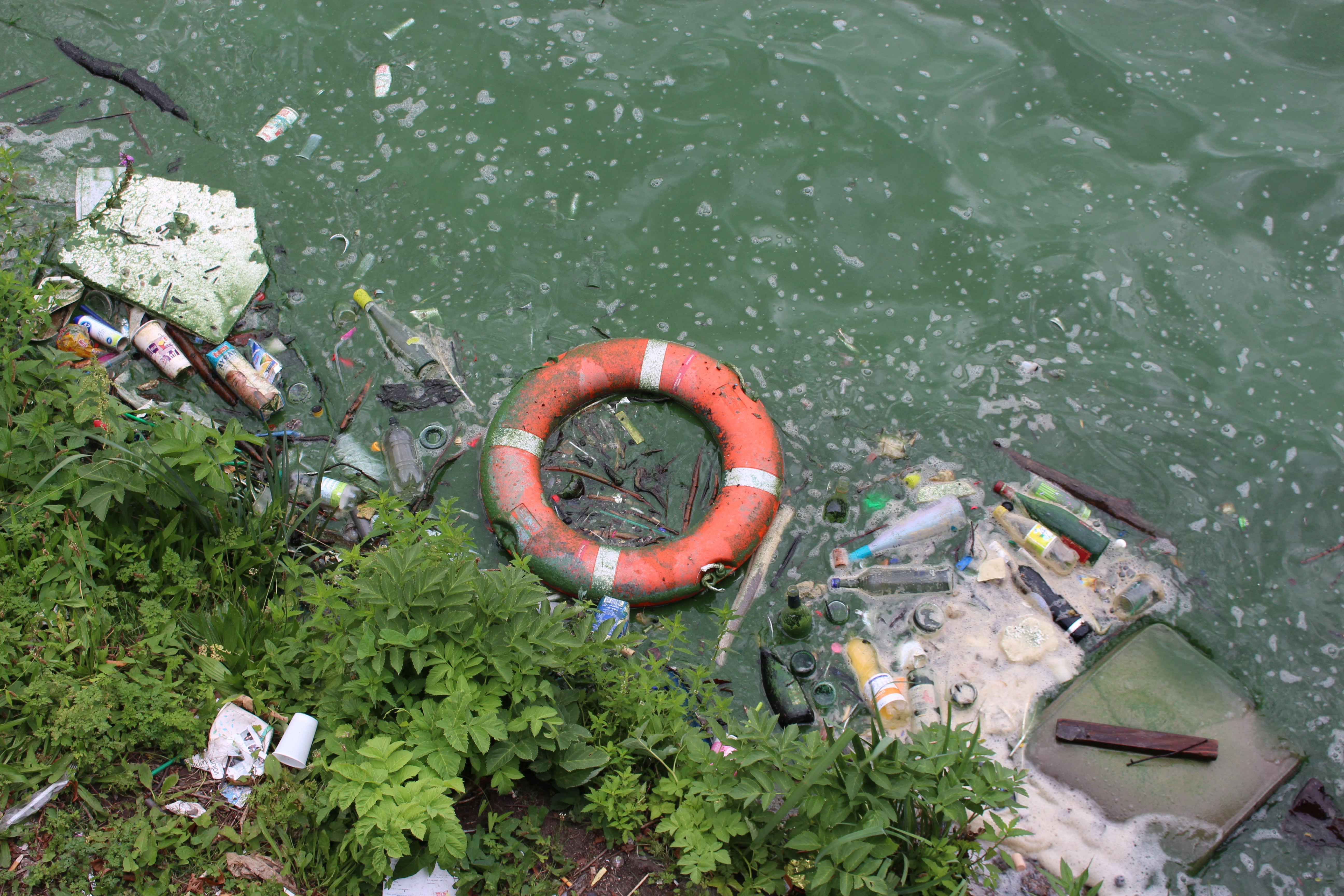 Waste in the Binnenalster, Hamburg, Germany.